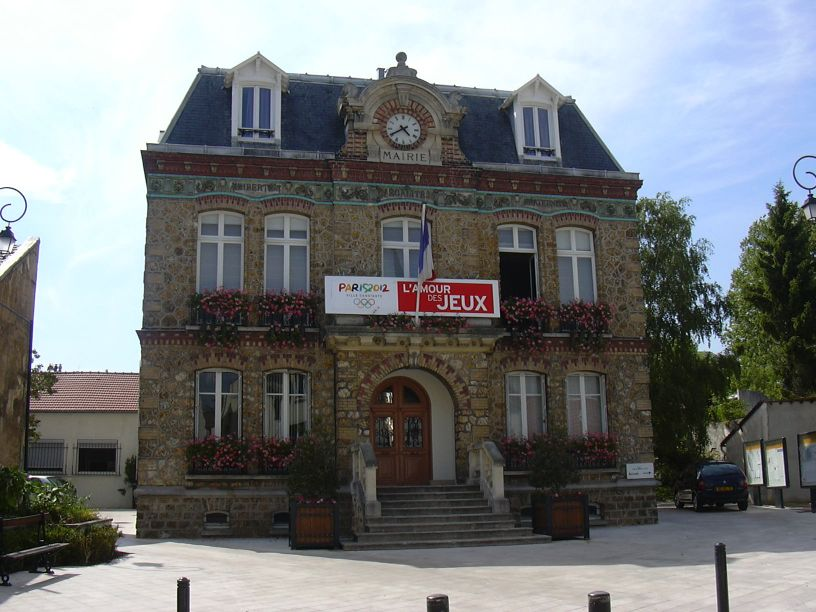 City hall of Villiers-le-Bel (Val-d'Oise, France).